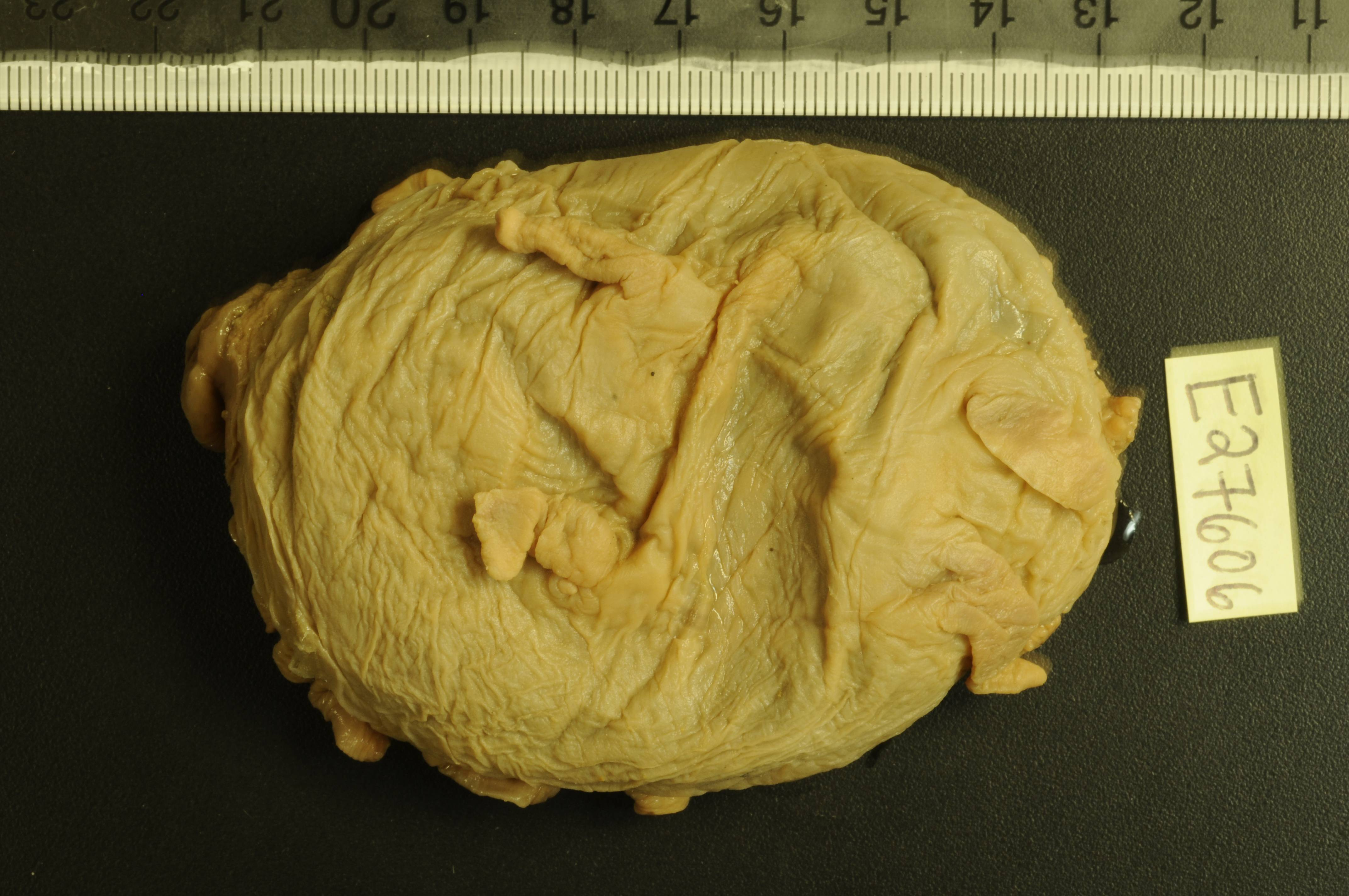 PRESERVED_SPECIMEN; Preparations: Alcohol (Ethanol); Scotoplanes globosa (Théel, 1879); Individual count: 2; Type status: (no data); Identified by: Carney, Robert S.; Event date: 19630828T00:00:00Z; Additional description: Scaled dorsal view of Scotoplanes globosa for measurement purposes